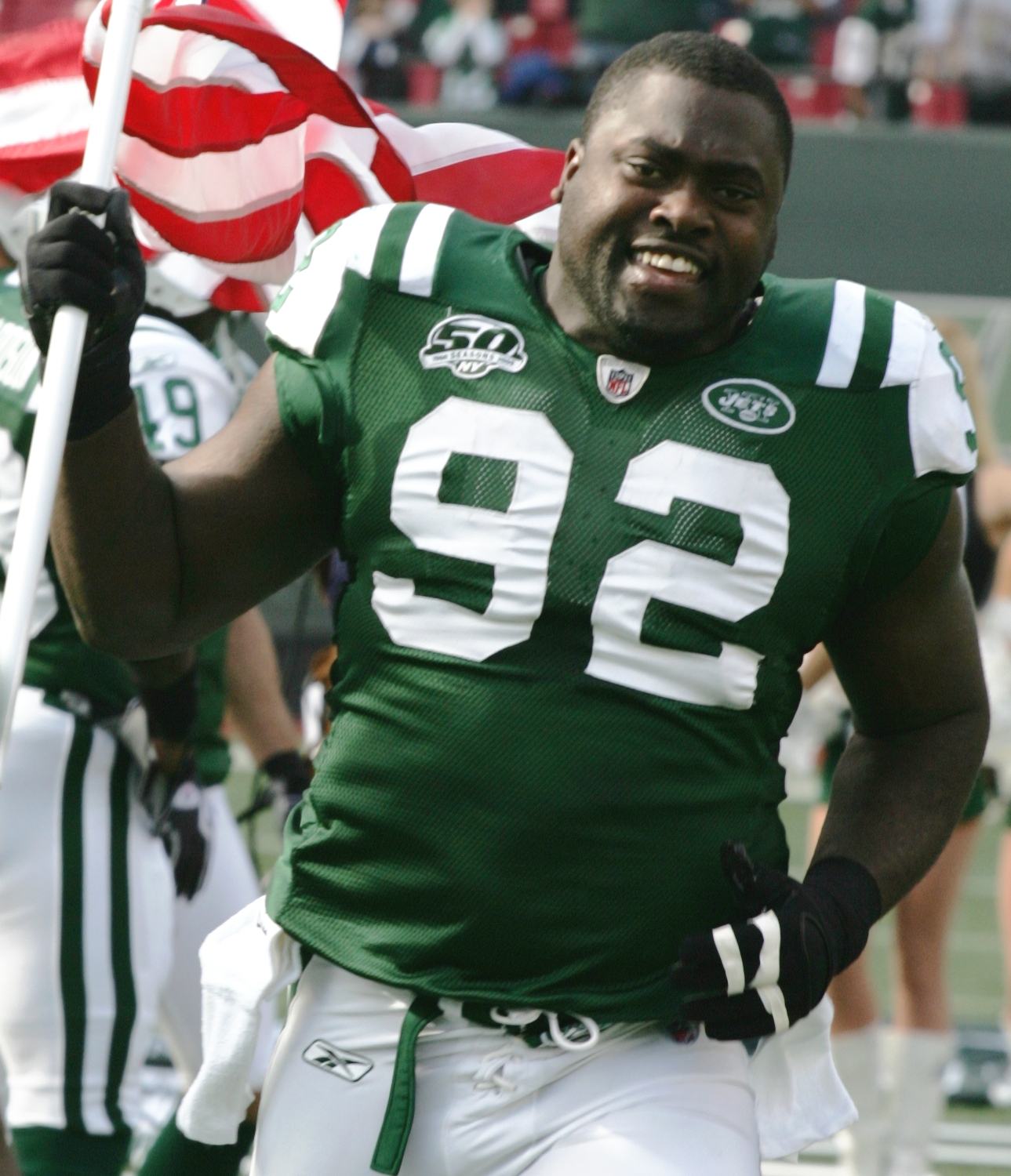 Shaun Ellis, defensive lineman, New York Jets, carrys an American flag on field during pre-game introduction, Nov. 15. Marine Corps, Air Force, Navy, Coast Guard and Army service members participated in a tribute to veterans before the game. A Coast Guard detachment sang the national anthem and were joined by a joint-service color guard before the New York Jets game against the Jacksonville Jaguars. Chief Master Sgt. James A. Roy, Chief Master Sergeant of the Air Force, presented the coin for the pre-game coin toss.